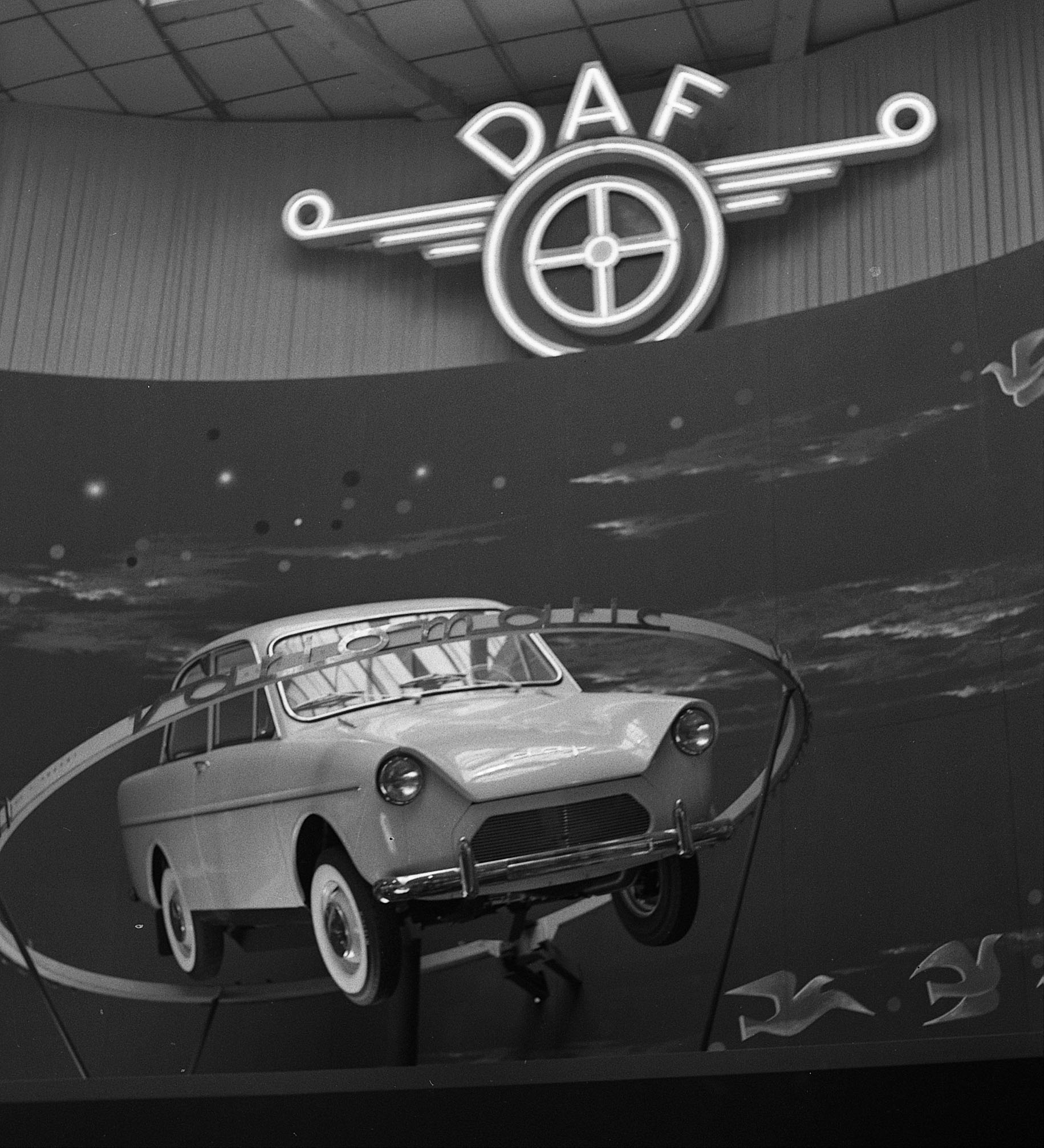 DAF 600 at the exihibition in Amsterdam in 1960